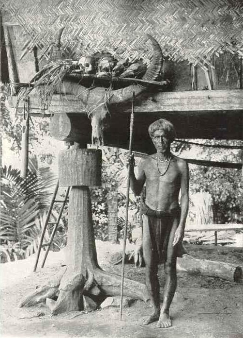 An Ifugao warrior with some of his trophies; Identified as Rafael Bulayungan by descendants and in Frank Lawrence Jenista's The White Apos (1987)